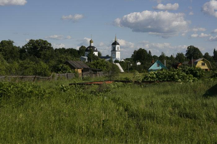 Village Shipulino, Klinsky district, Moscow region.